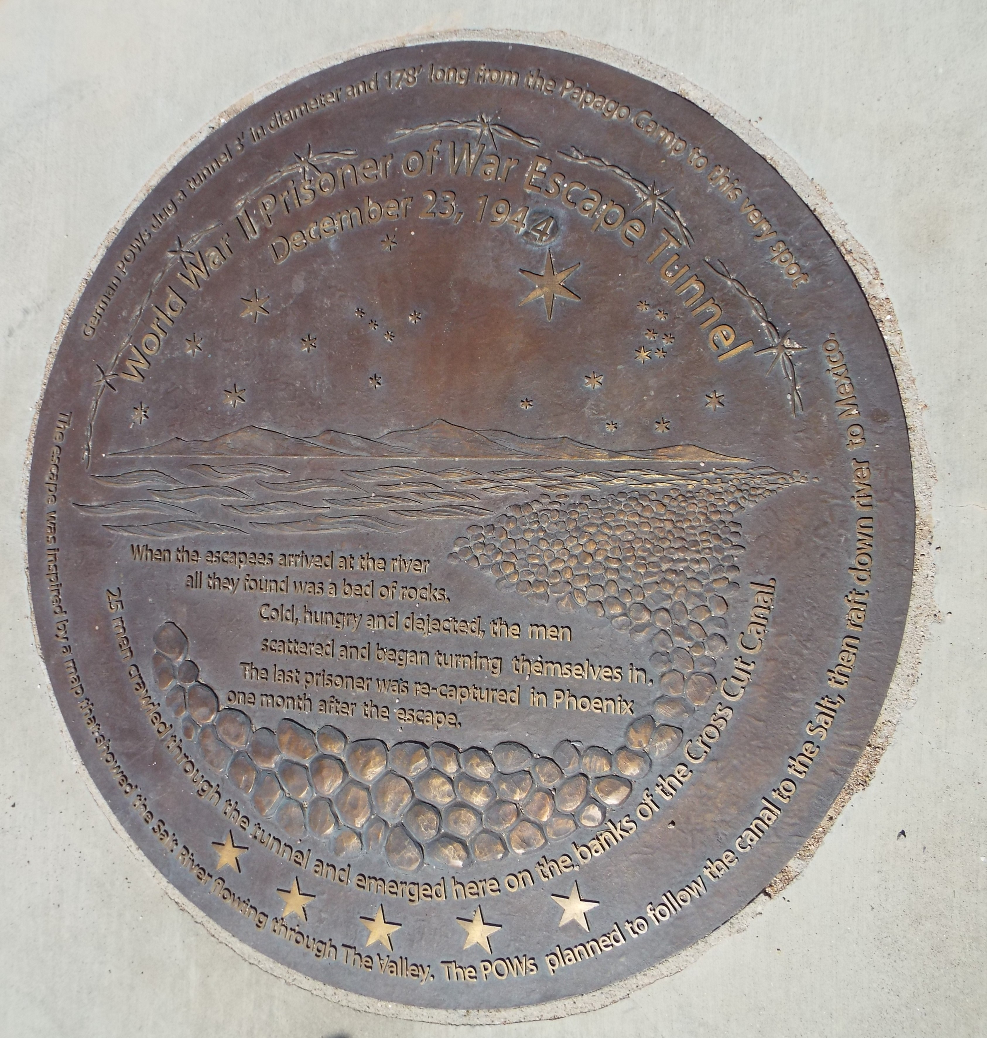 Marker which indicates where the tunnel exit of the Great Papago German POW Escape of 1944, is located in Scottsdale, Arizona